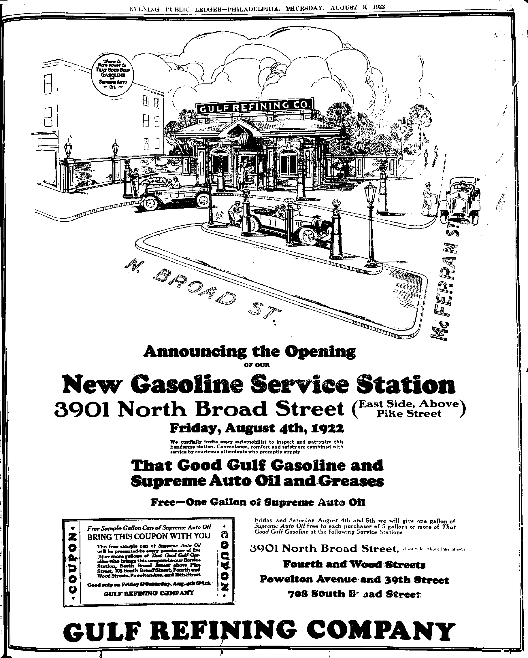 Newspaper ad for the opening of a new Gulf service station in Philadelphia, 1922.